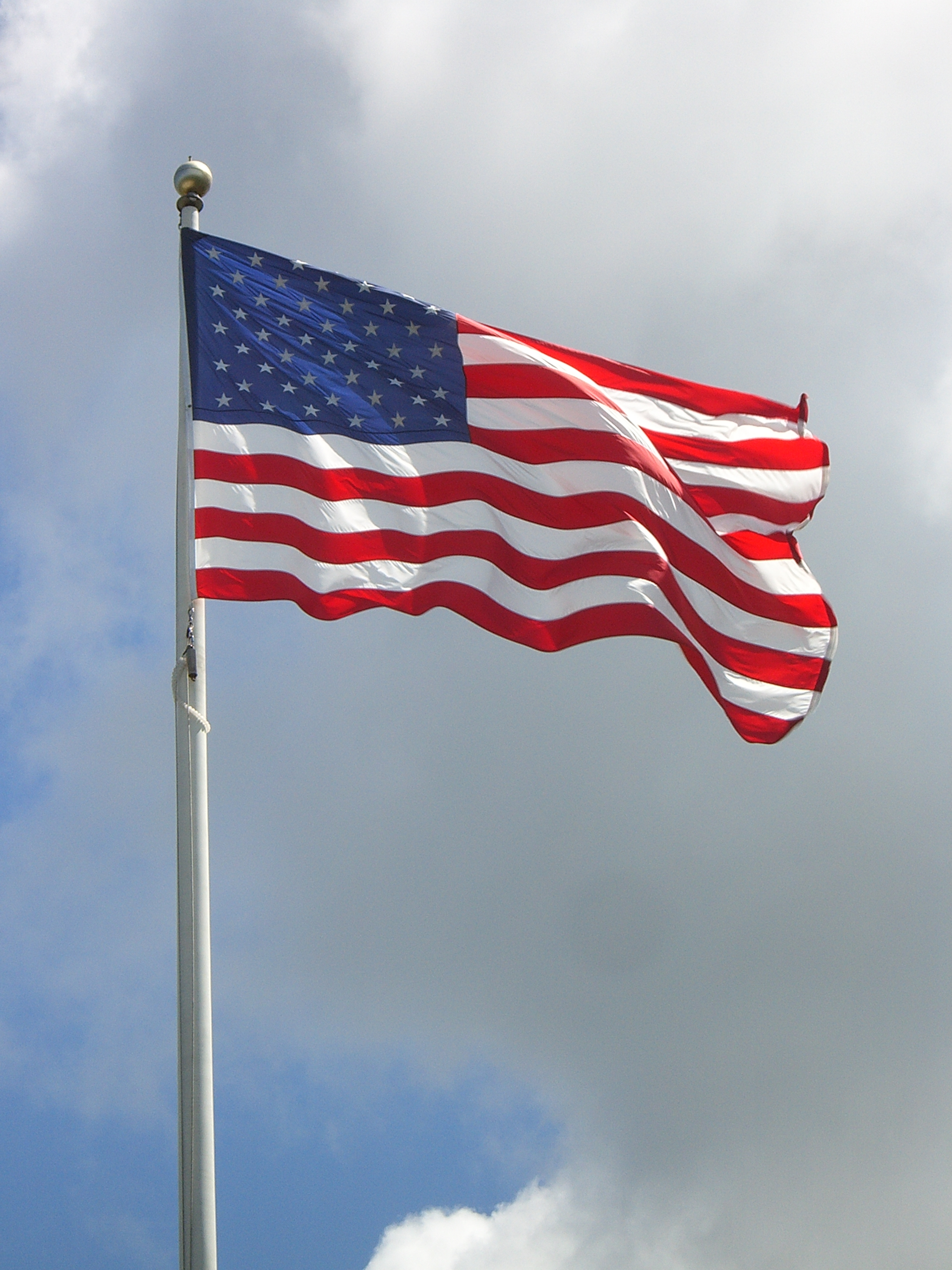 Flag of the United States at the memorial to President Kennedy in Hyannis, Massachusetts.